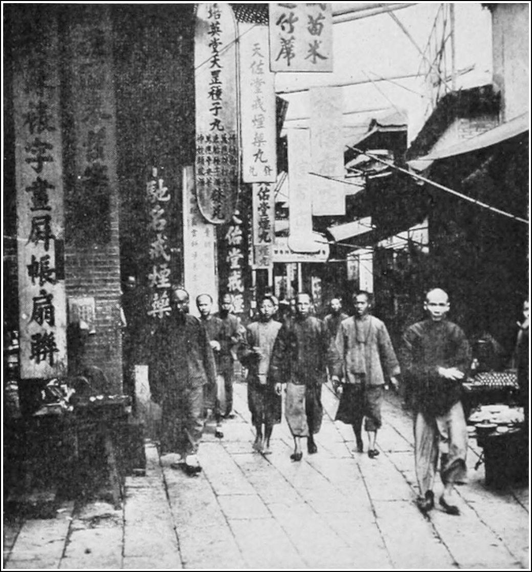 shappat po street where european shops are found